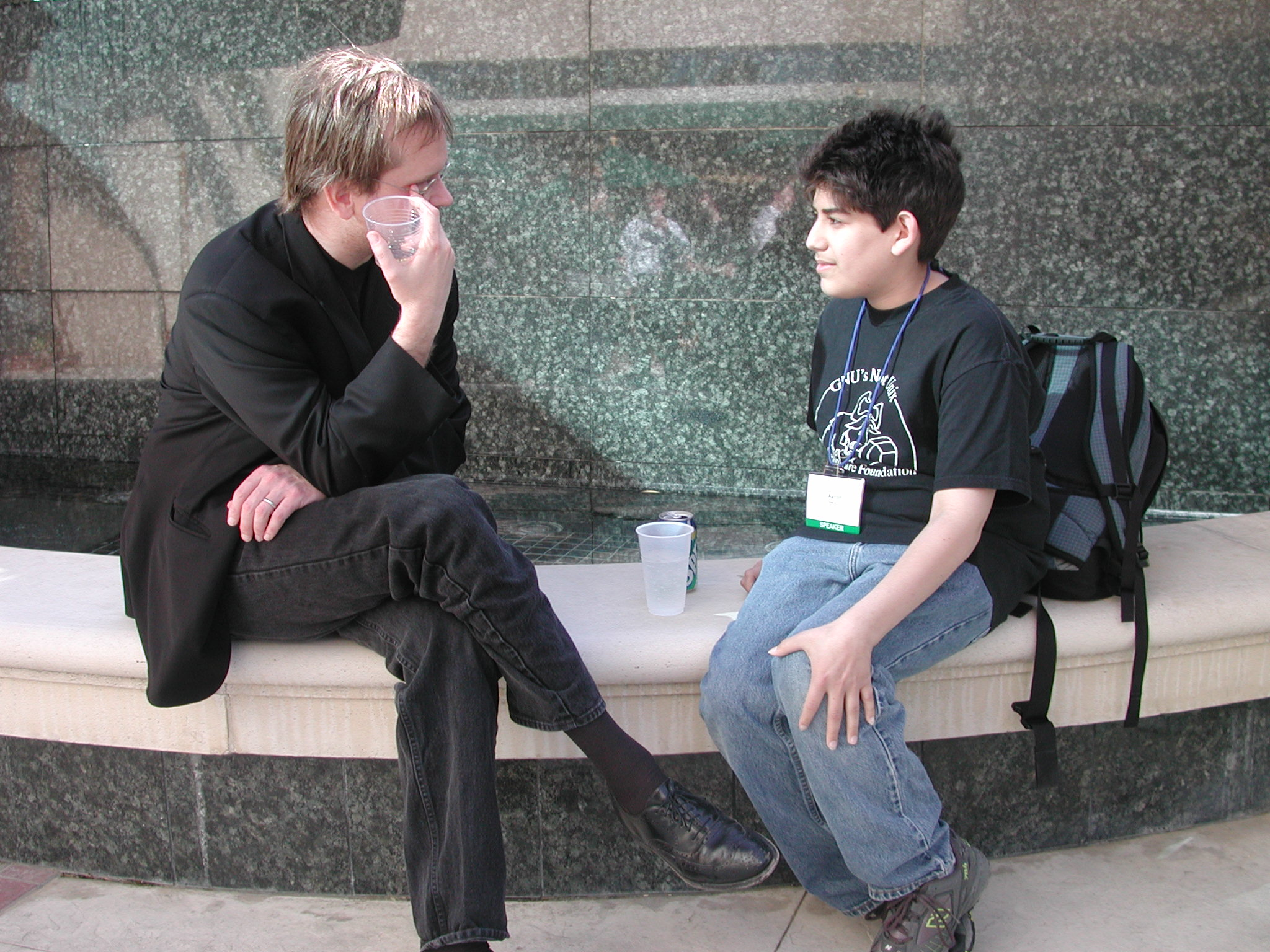 Photo of Lawrence Lessig and Aaron Swartz at the launch party for Creative Commons at O'Reilly's Emerging Technology Conference.